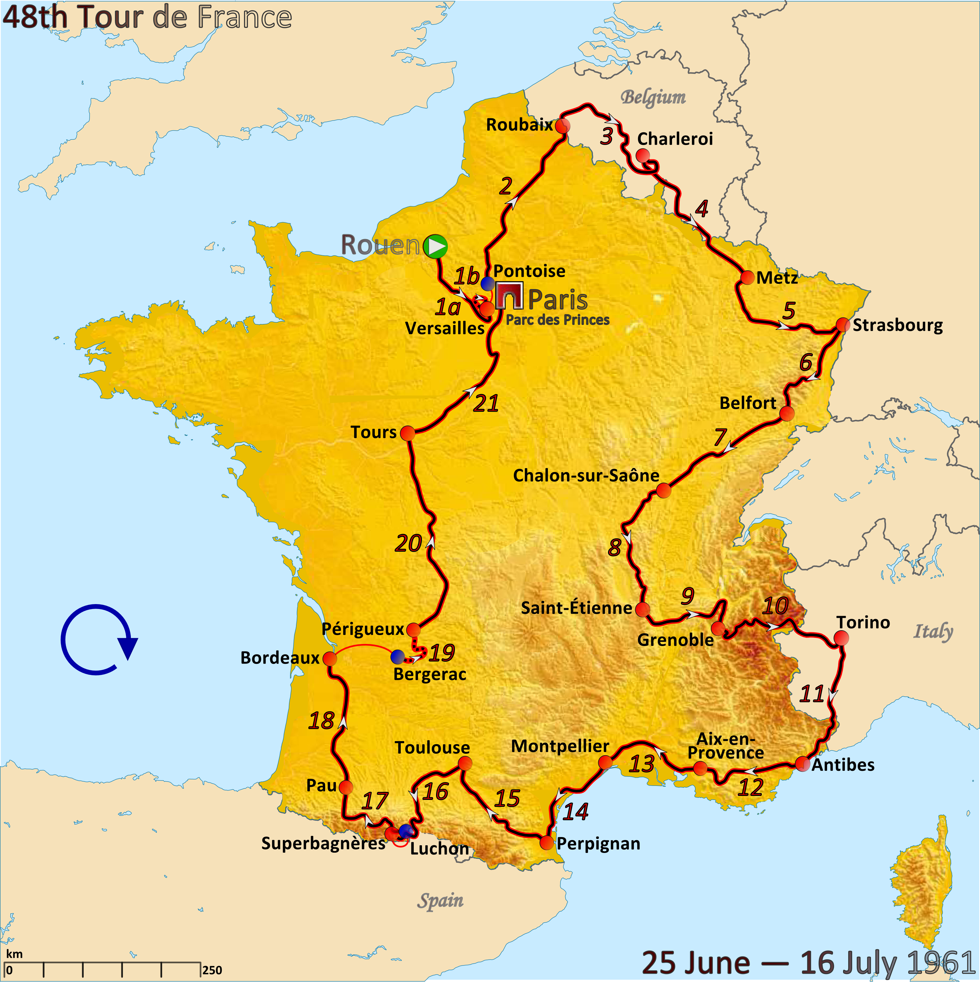 Route of the 1961 Tour de France created in Inkscape using accurate stage maps from touratlas.nl.